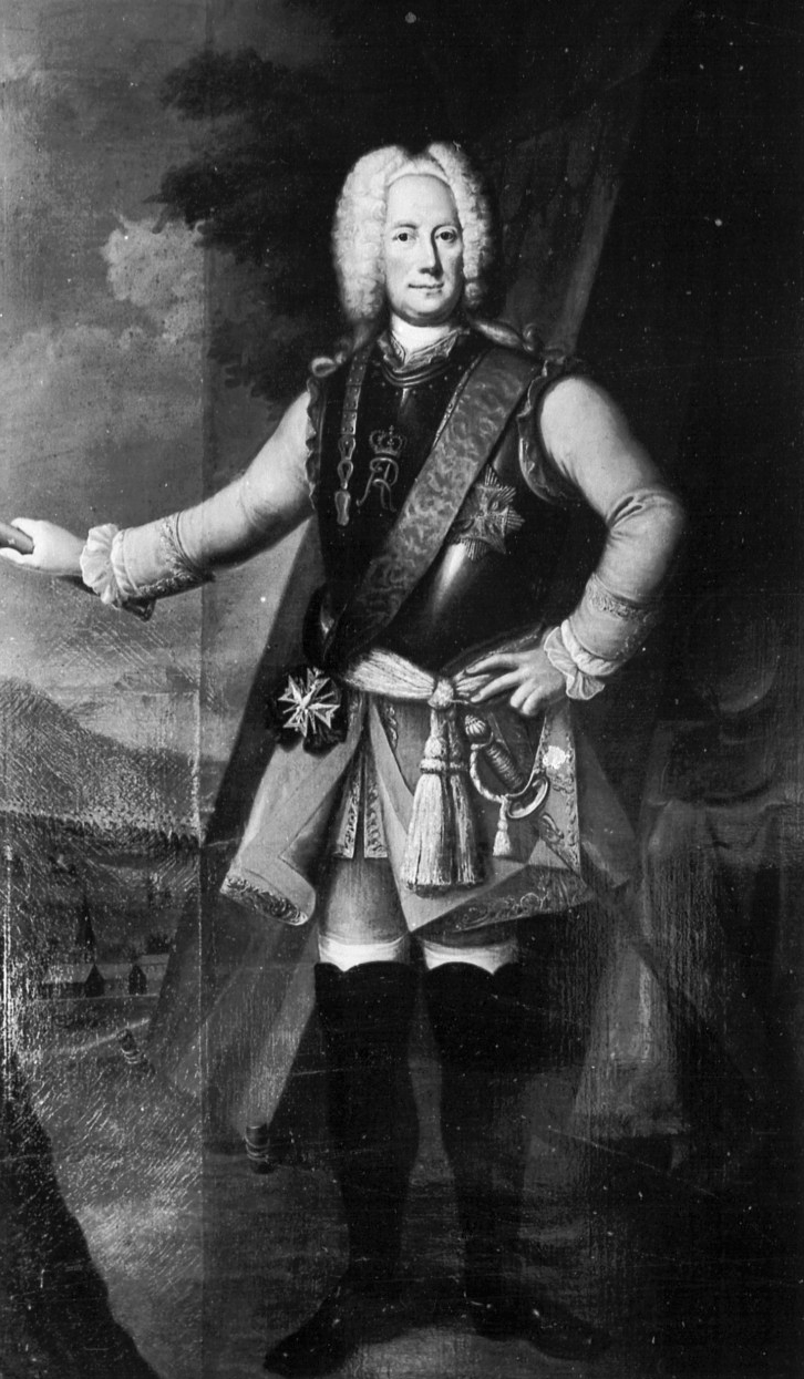 Wolf Heinrich von Baudissin (1671-1748)